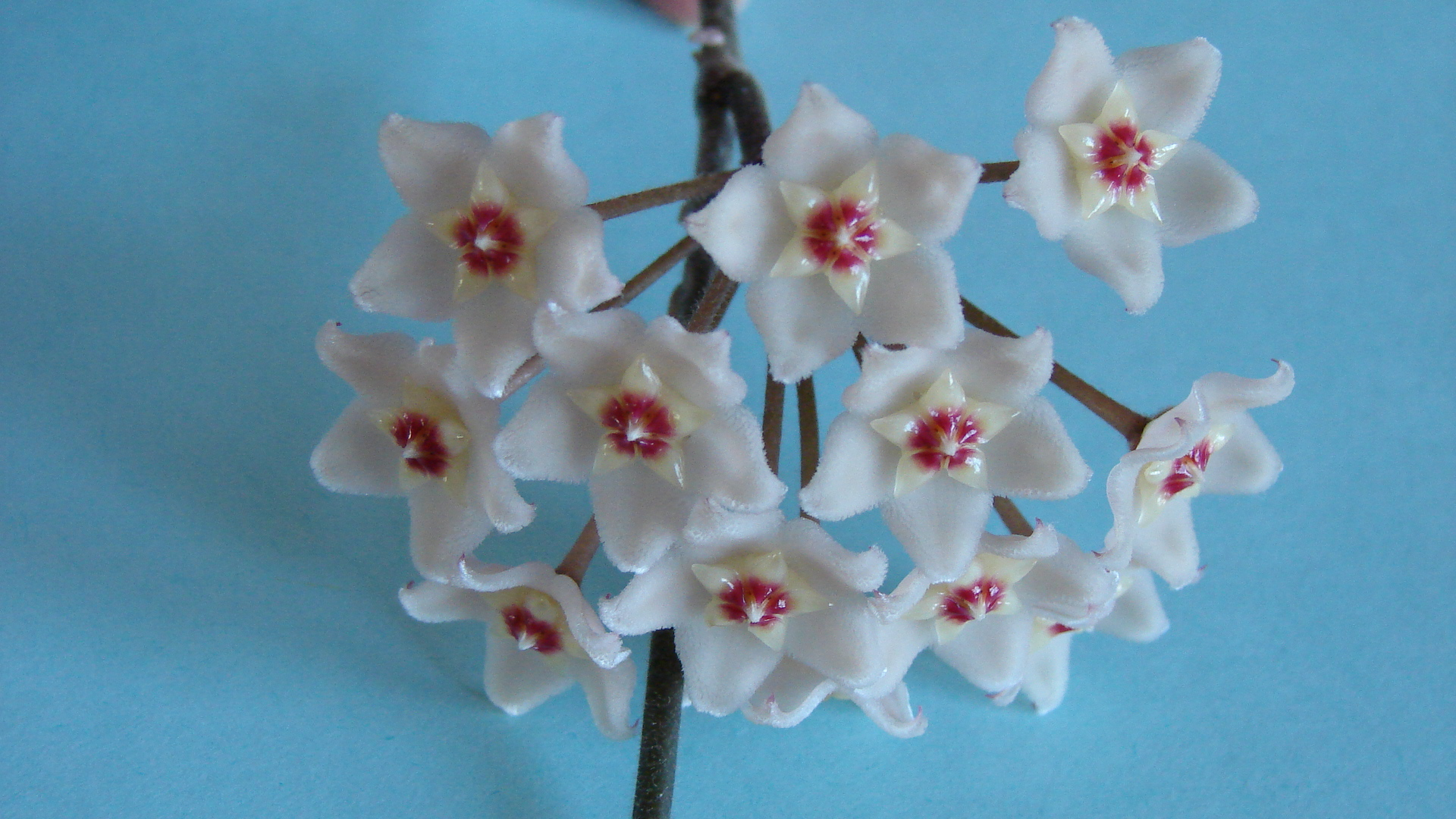 Waxflower